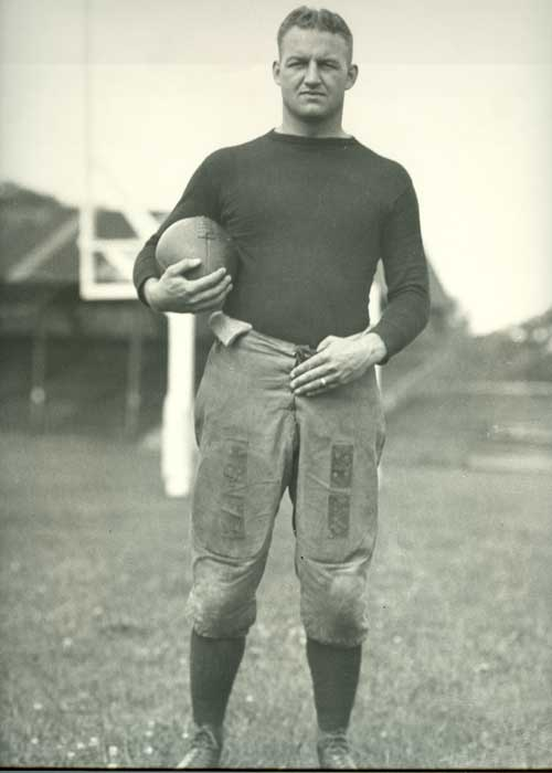 Image of Russ Stein